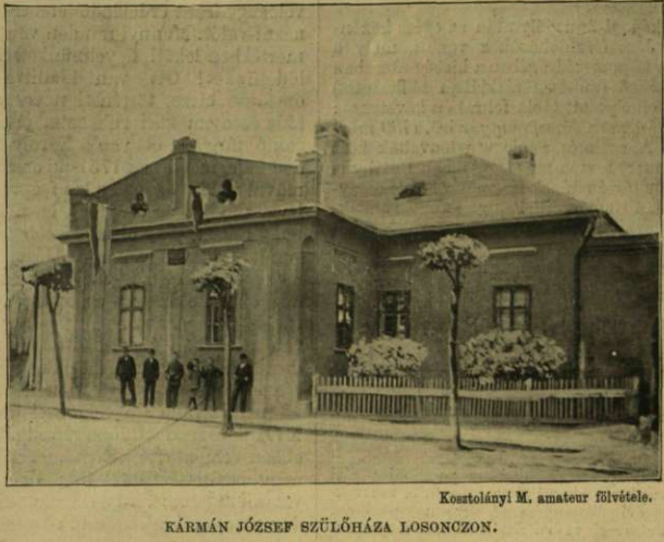 The house where Kármán József was born